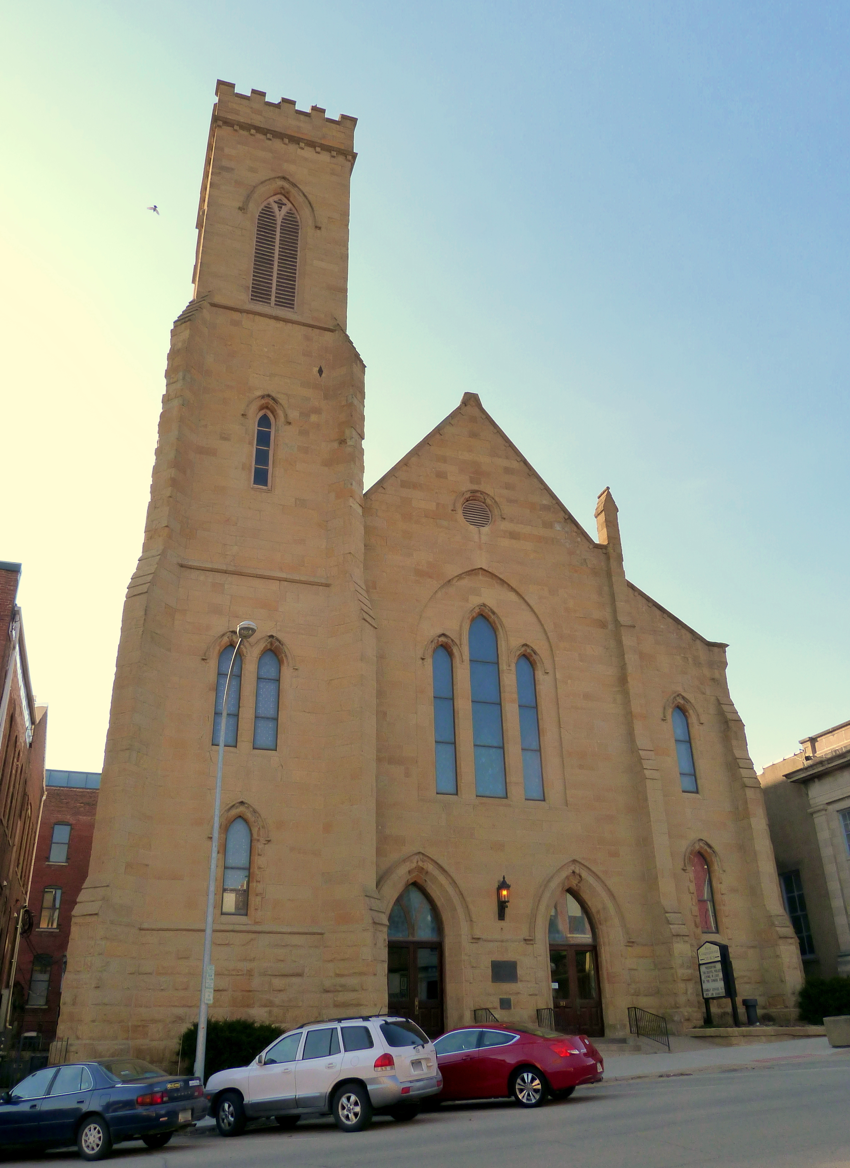 The historic First Congregational Church (built 1867-1870), located at 313 North 4th Street in Burlington, Iowa, United States, is listed on the US National Register of Historic Places. It is additionally listed as a contributing resource in the National Register-listed Heritage Hill Historic District.